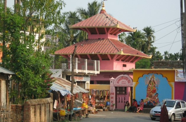 Dantakali Temple of Dharan. The image was taken from the main road to Dantakali Temple. Kaushik Mitra took the photograph. This photo was taken on April 2008.